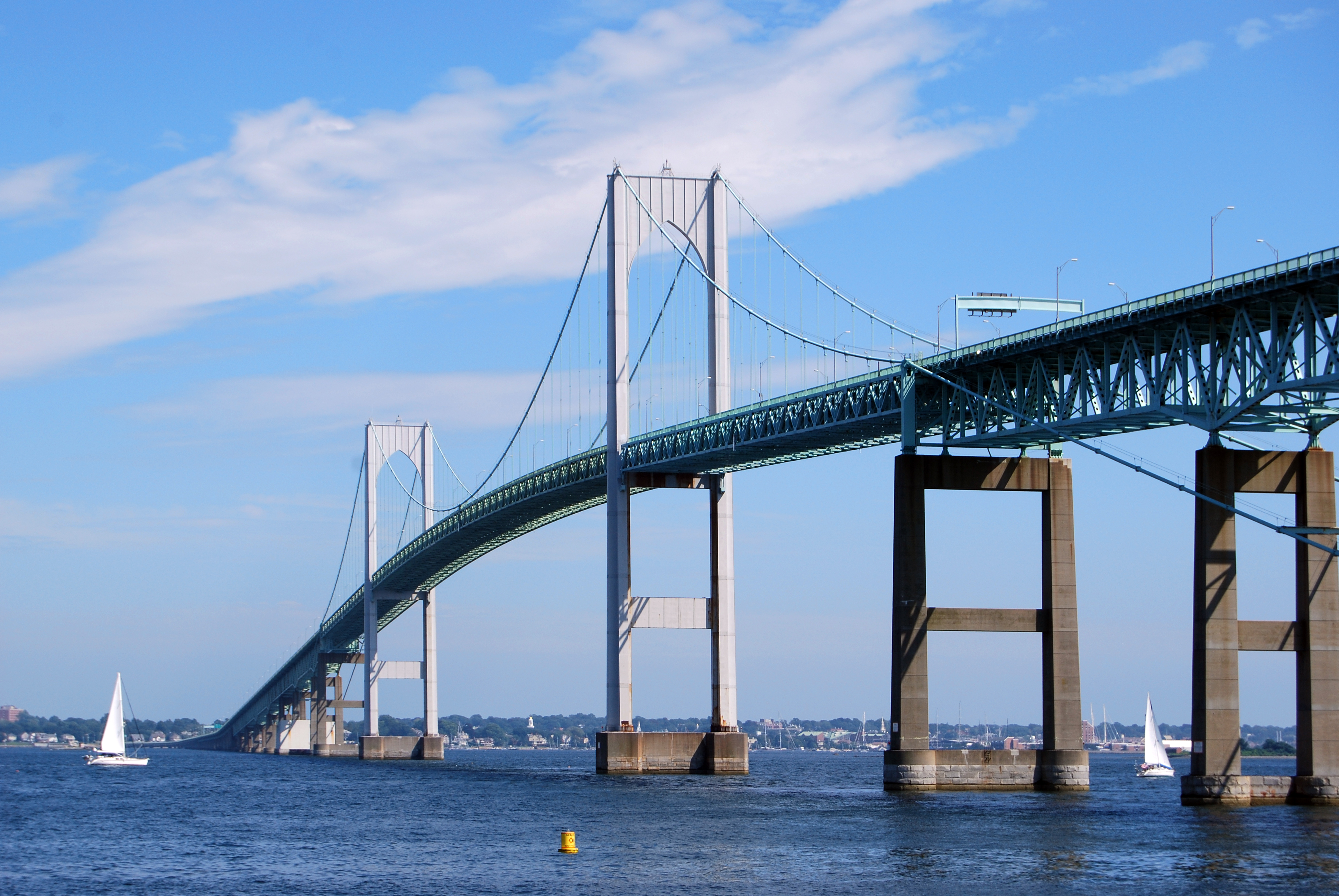 The Claiborne Pell Newport Bridge in Newport, Rhode Island, United States, a suspension bridge that connects Newport and Jamestown, crossing the Narragansett Bay. It was built in 1969 and is featured on the reverse of the Rhode Island quarter.